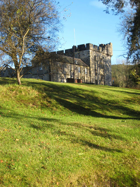 Kielder Castle This "Castle" was built in 1775 as a hunting lodge and country retreat for the Dukes of Northumberland. Now a visitor centre for Kielder Forest.